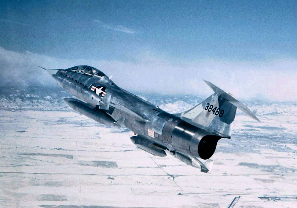 German Air Force Lockheed TF-104G Starfighter 63-8469, being operated by the 418th Tactical Fighter Training Squadron, Luke AFB, Arizona. Luftwaffe 27+71 Sold to Norway in 1977 after squadron inactivated.